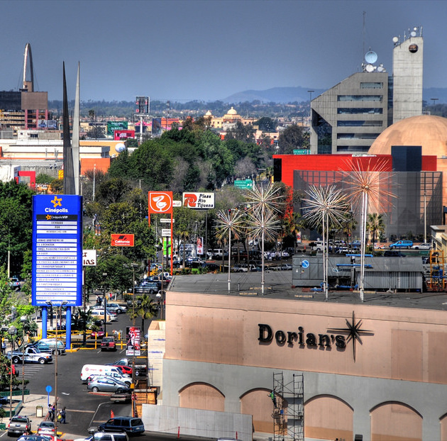 Dorian's department store at Plaza Río Tijuana sometime before its conversion to a Sears store in 2009